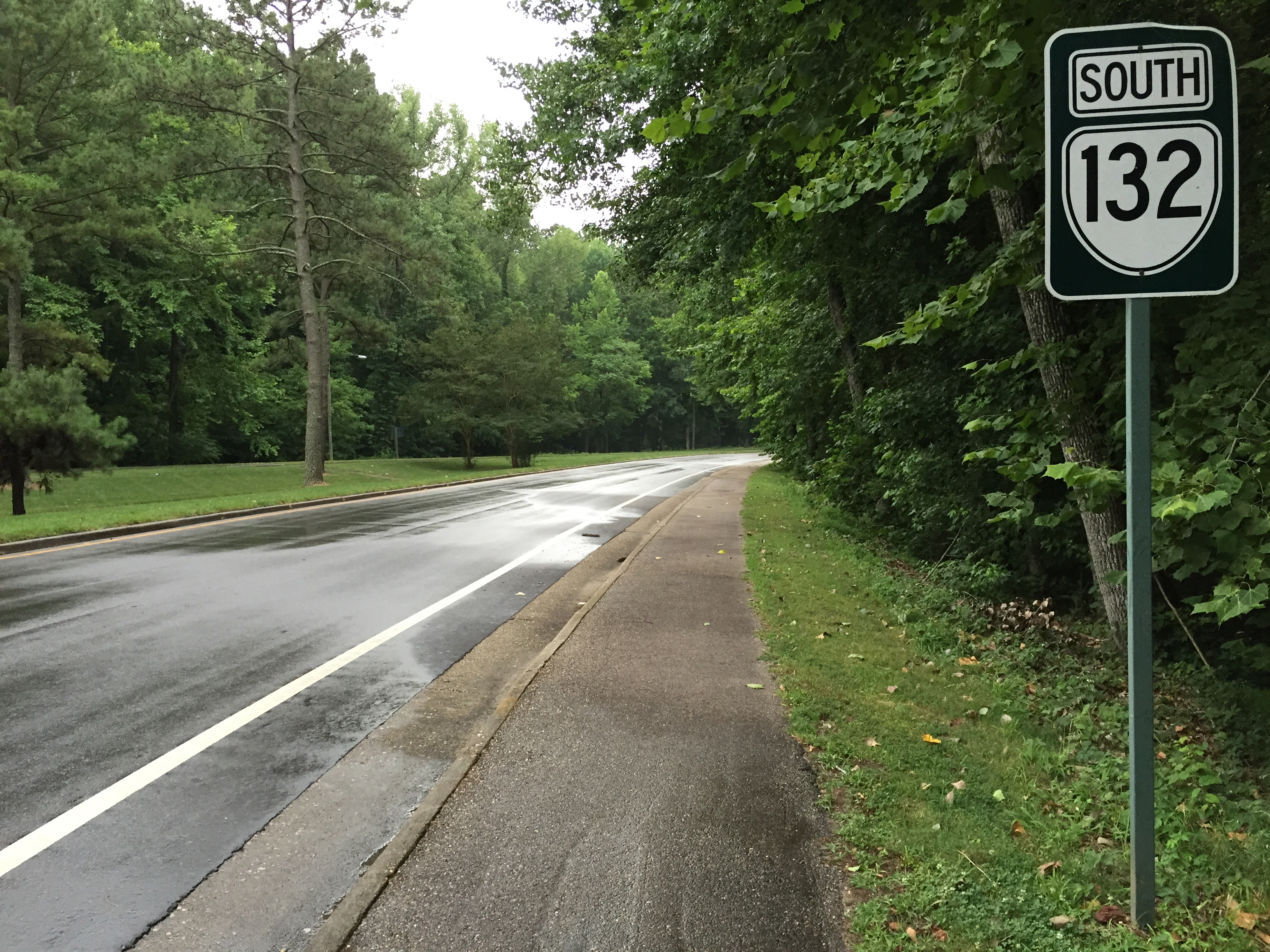 View south along Virginia State Route 132 (Henry Street) at Virginia State Route 132Y (Visitor Center Drive) in Williamsburg, Virginia